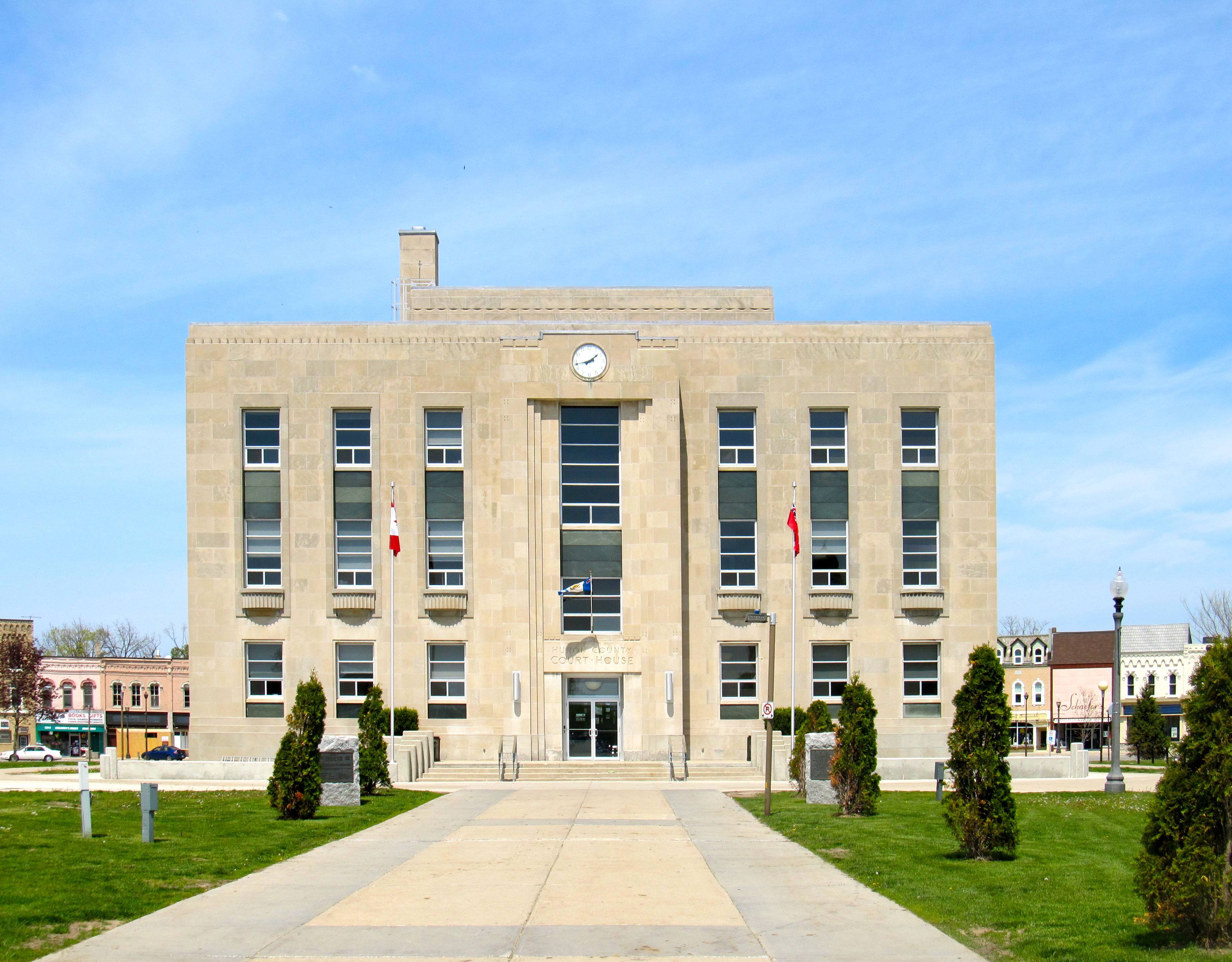 Huron County Court House in Goderich, Ontario.